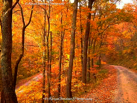 This is the first of many switchbacks along Petite's Gap Road heading out of Arnolds Valley toward the Blue Ridge Parkway.